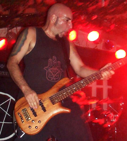 Stuart Cavilla, bassist in Breed 77